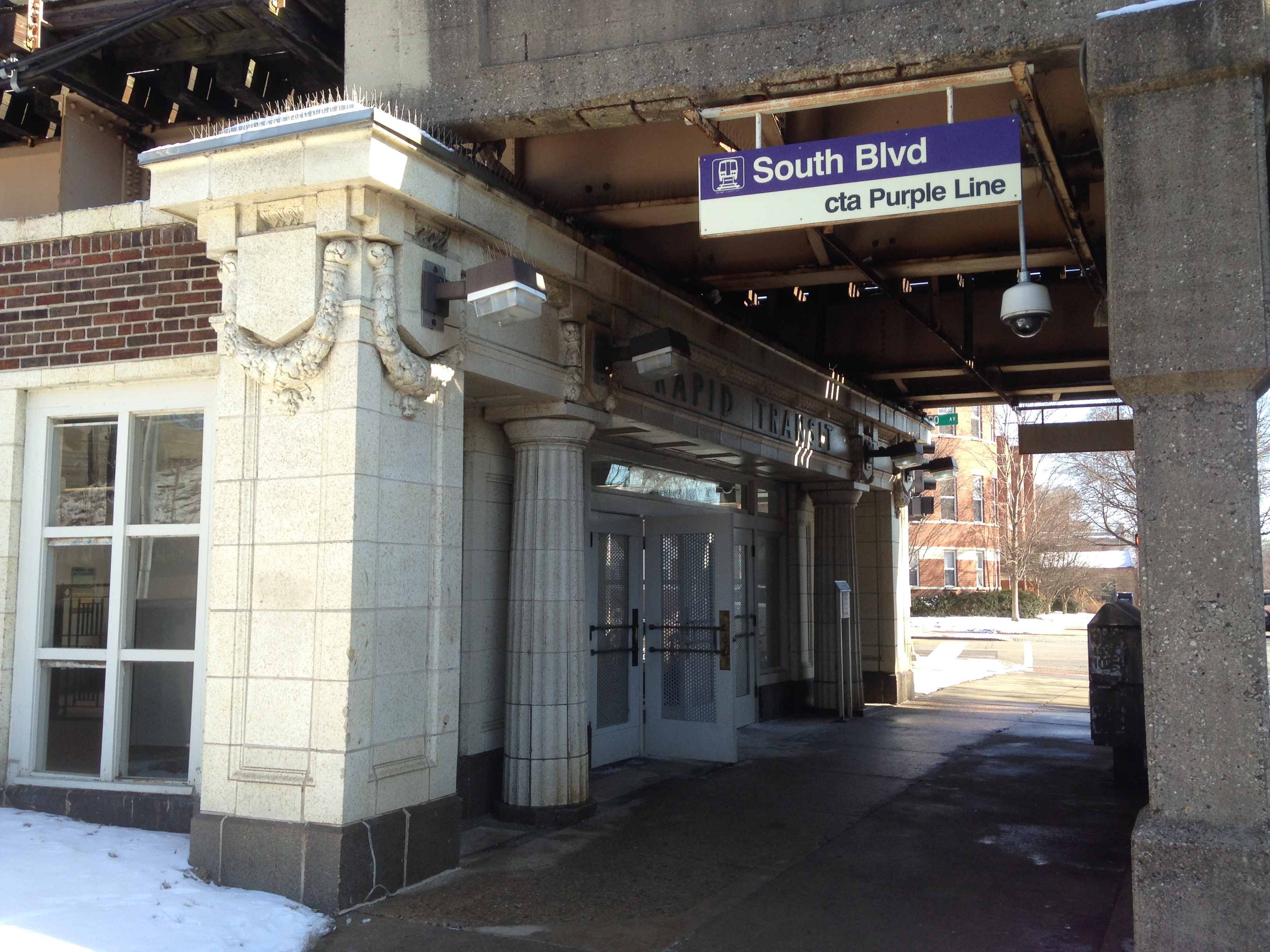 The South Boulevard station house on the CTA Purple Line elevated train, in Evanston, Illinois, United States, in 2020.